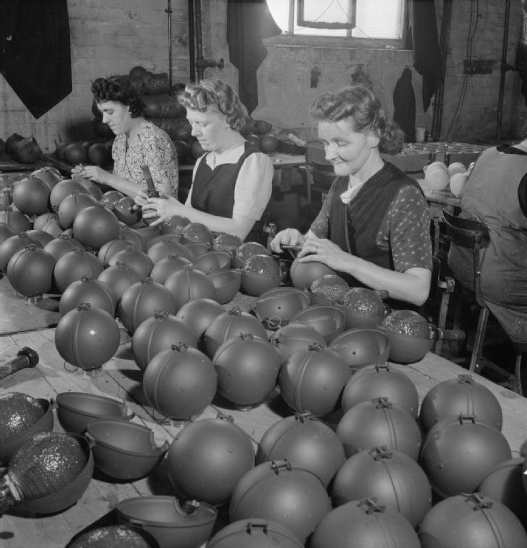 Sticky Bomb- the Production of the No 74 Grenade in Britain, 1943 Women war workers fit sticky bombs into their protective casings at a workshop somewhere in Britain. Left to right, they are: Mrs F Brayford, Mrs A Kelly and Mrs E Wainwright. A large pile of casings can be seen on the table, awaiting attention.